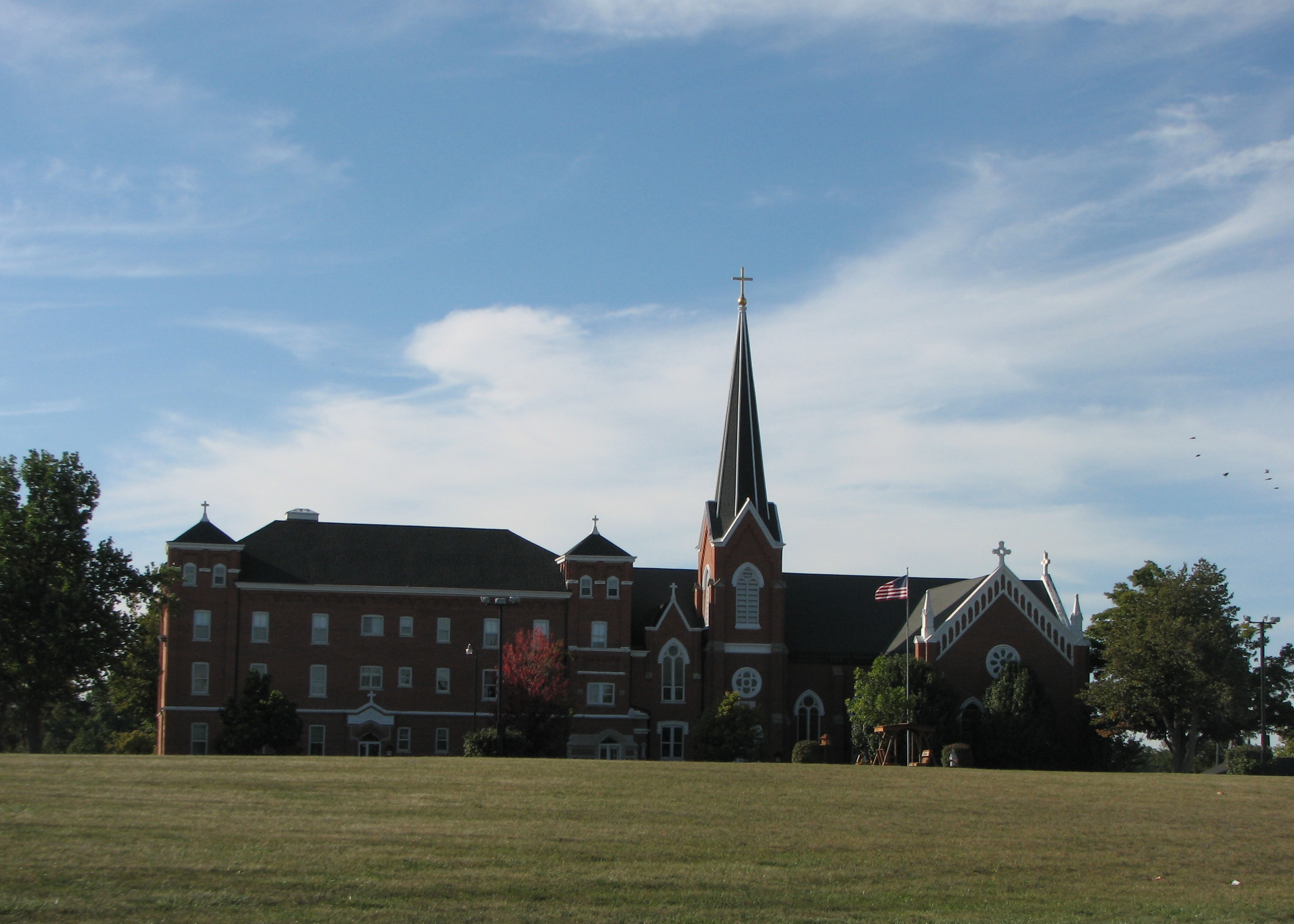 The Maria Stein Convent, located on the western side of St. Johns Road slightly north of Maria Stein, an unincorporated community in Marion Township, Mercer County, Ohio, United States. Built in 1846, the convent complex (also known as the Shrine of the Holy Relics) has been added to the National Register of Historic Places as a part of the Cross-Tipped Churches of Ohio Thematic Resources.